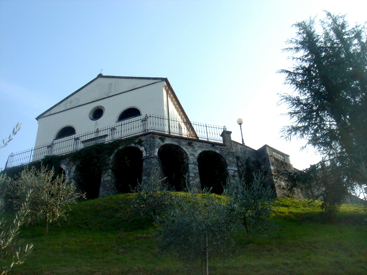 The church of Castello Roganzuolo on the "Casteari"